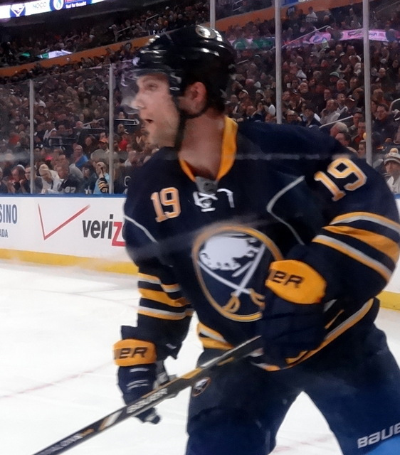 Buffalo Sabres forward Cody Hodgson skates against the Pittsburgh Penguins, February 17, 2013 at First Niagara Center in Buffalo, NY.